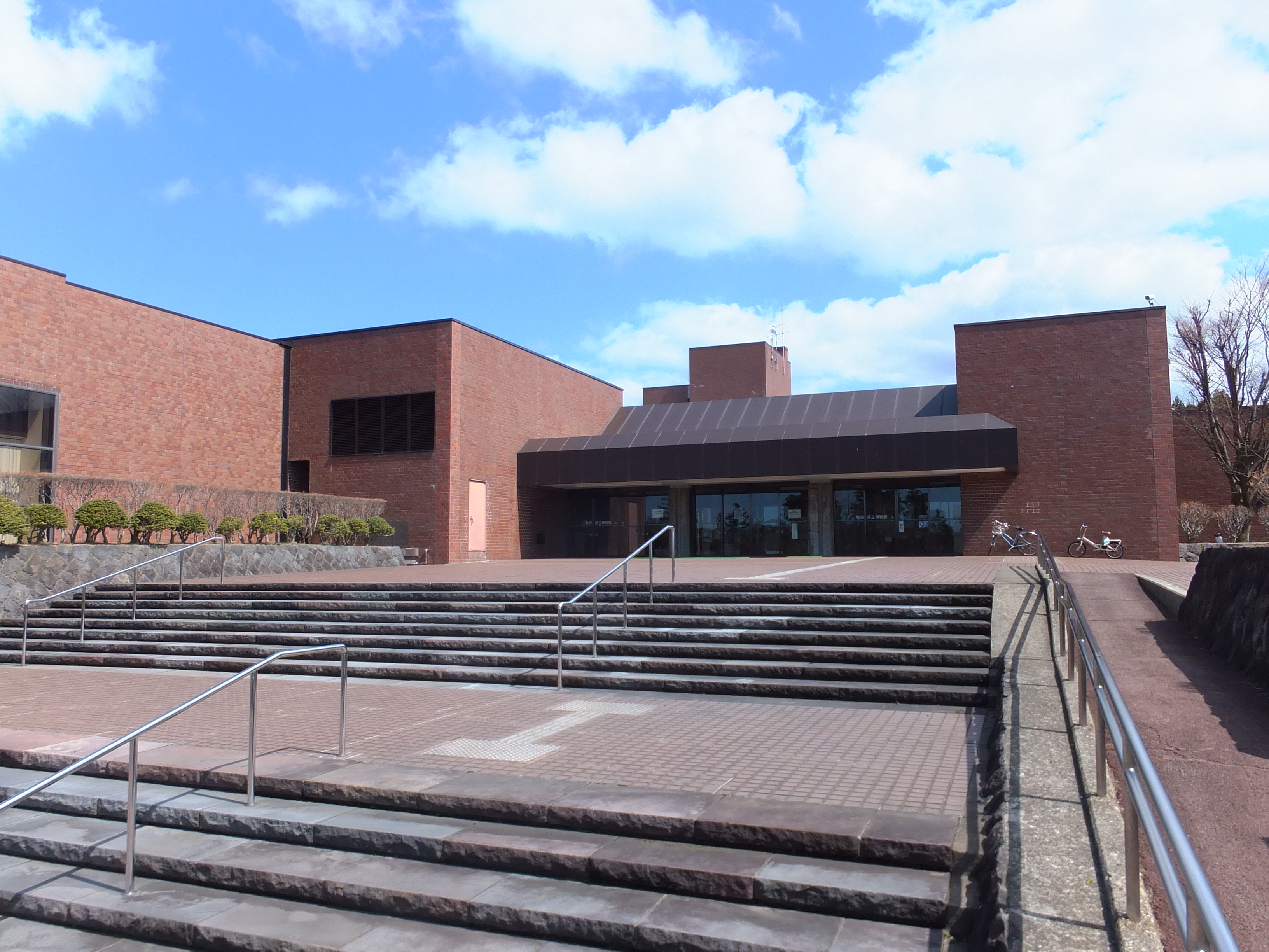 Akita Prefectural Museum in Akita City, Japan